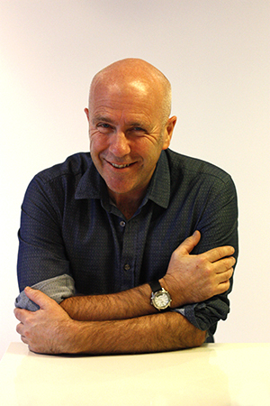 Author Richard Flanagan. Winner of the Man Booker Prize 2014 for his novel The Narrow Road to the Deep North.